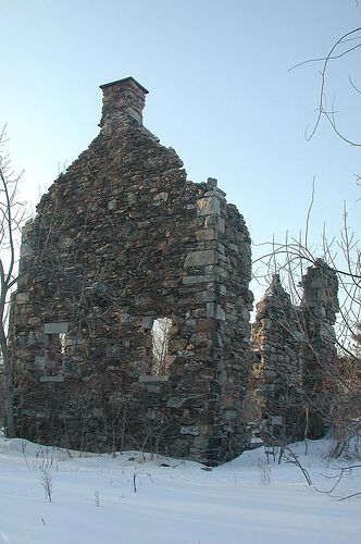 Ruins of a two story house that burnt down in 1960.